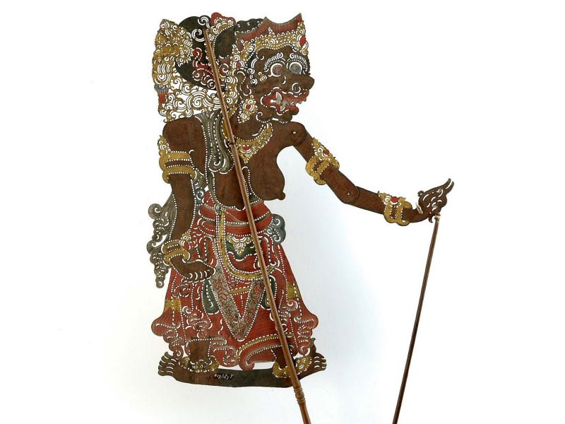 Wayang kulit figure, representing Batari Durga